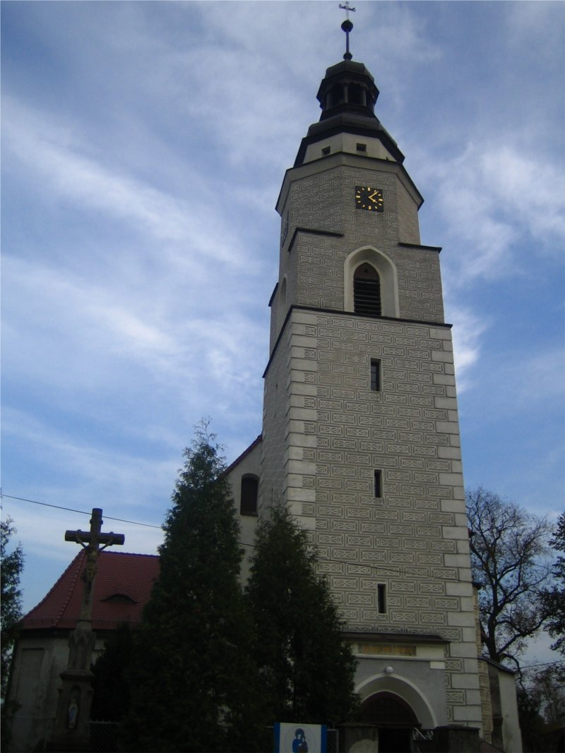 Church in Bierawa, Silesia